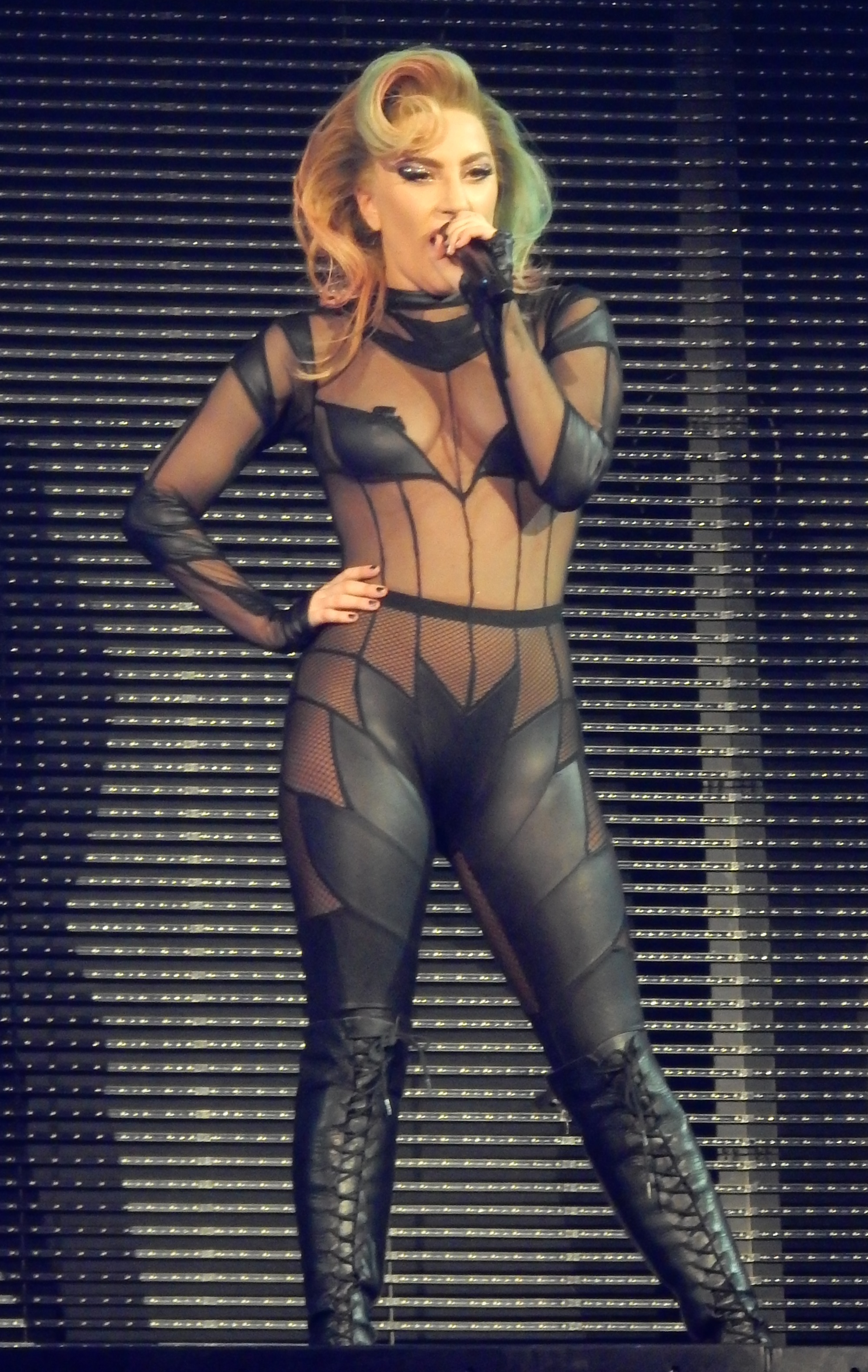 Lady Gaga performing at Arena Birmingham for the Joanne World Tour, January 31st 2018